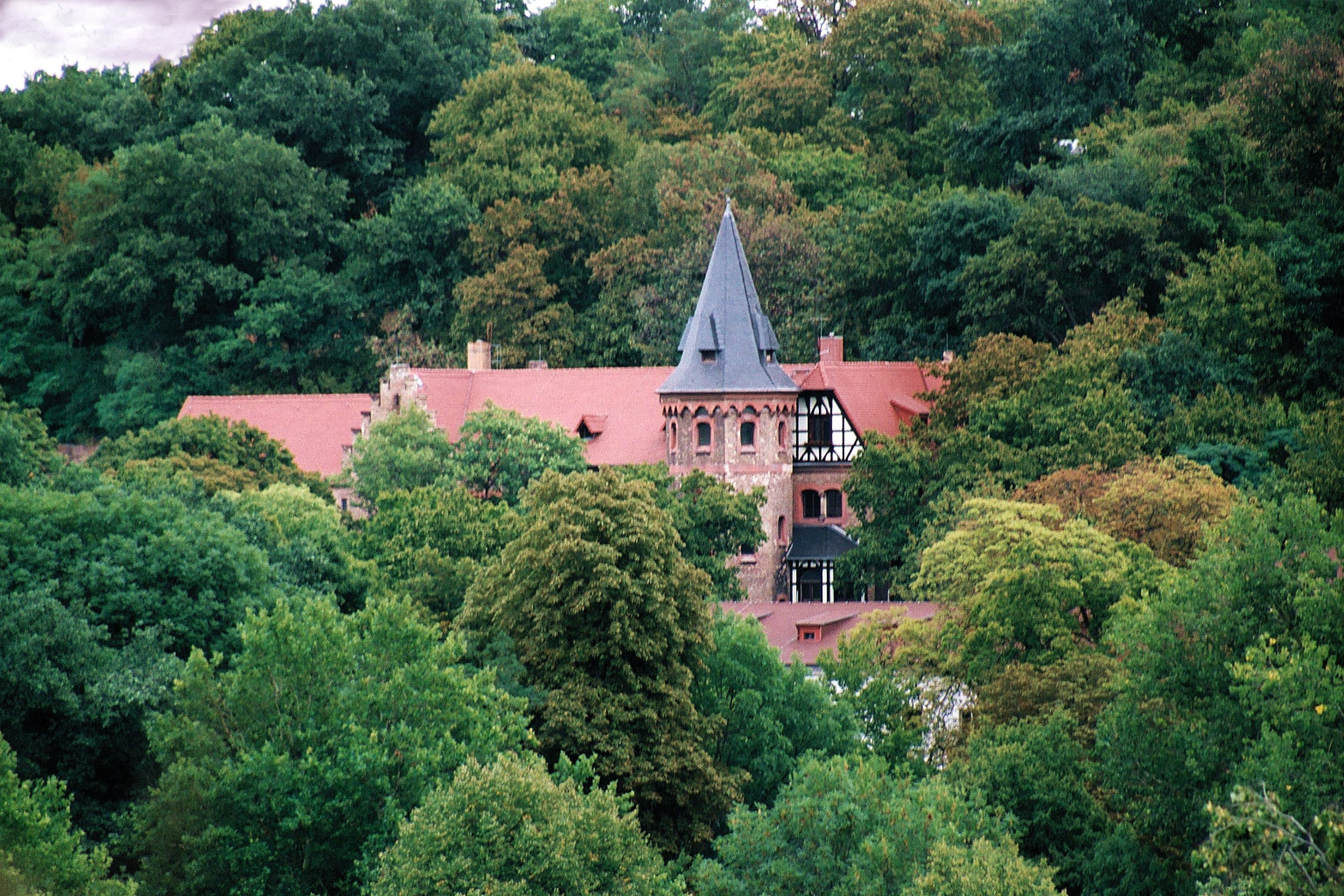 Halle (Saale), view from the Ochsenberg to the western entrance of the zoo, telephoto